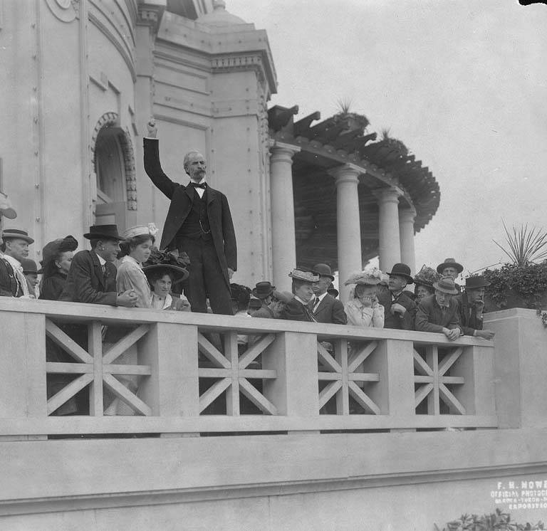 Edmond Meany addressing Alaska-Yukon-Pacific Exposition stockholders and president, Seattle, Washington, September 19, 1908 Photographer: Nowell, Frank H., 1864-1950 Subjects (LCSH): Meany, Edmond S. (Edmond Stephen), 1862-1935 Public speaking--Washington (State)--Seattle Alaska-Yukon-Pacific Exposition (1909 : Seattle, Wash.) Exhibitions--Washington (State)--Seattle Digital Collection: Alaska-Yukon-Pacific Exposition Collection Item Number: AYP551 Persistent URL: University of Washington Libraries. Digital Collections [#//content.lib.washington.edu%20